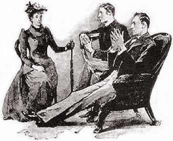 Sherlock Holmes in "The Adventure of the Copper Beeches", which appeared in The Strand Magazine in June, 1892. Original caption was "HOLMES SHOOK HIS HEAD GRAVELY."